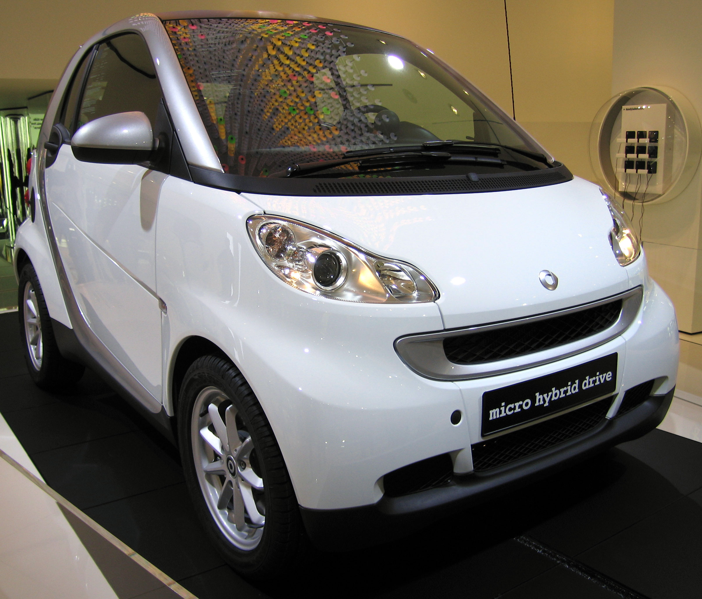 smart fortwo micro hybrid drive at the IAA 2007